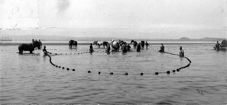 On verso of image: Haul seining for salmon on the Columbia River In Folder 216 Subjects (LCTGM): Fishermen--Washington (State); Fishing industry--Washington (State); Fishing industry--Columbia River Subjects (LCSH): Seining--Washington (State); Seining--Columbia River; Salmon industry--Washington (State); Salmon industry--Columbia River; Horses--Washington (State); Columbia River